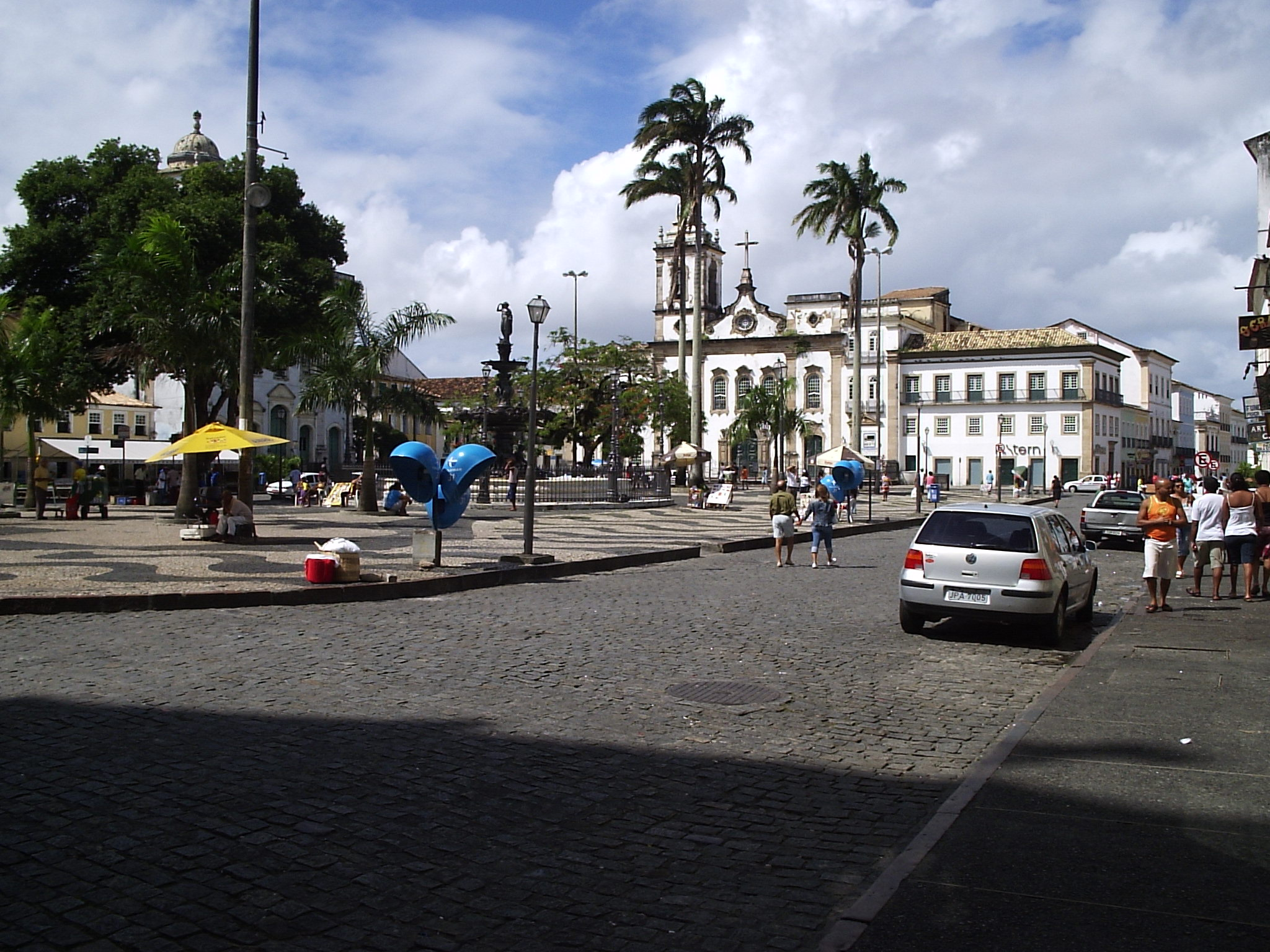 Terreiro de Jesus, Salvador, Brazil. Photografed by User:Sitenl